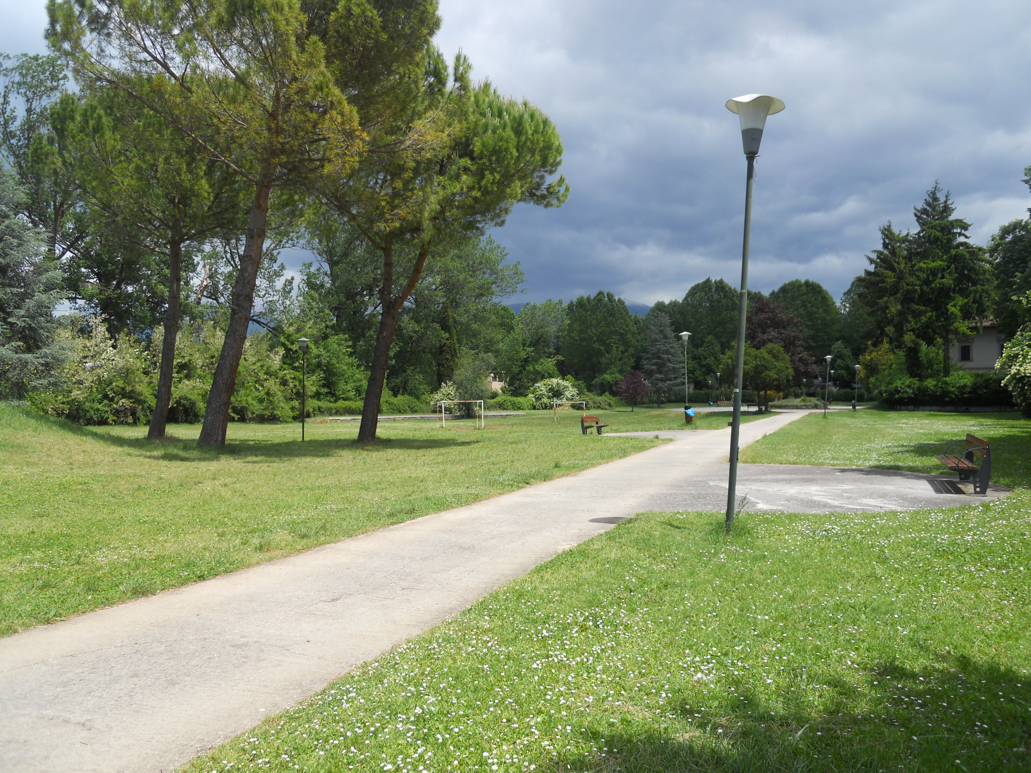 Park in Liberato di Benedetto street - Rieti, Italy